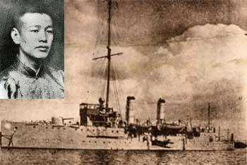 Gunboat "Chung-shan" and its captain Sah Shih-chun